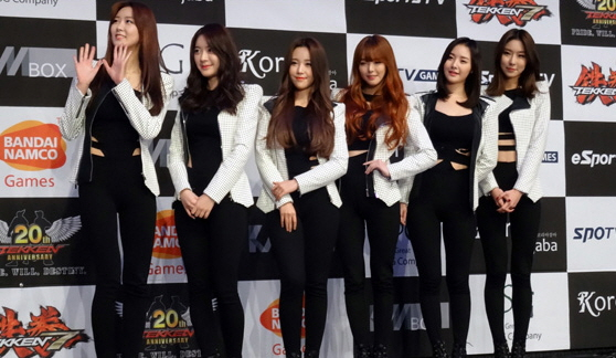 Dal Shabet in Jan 2015